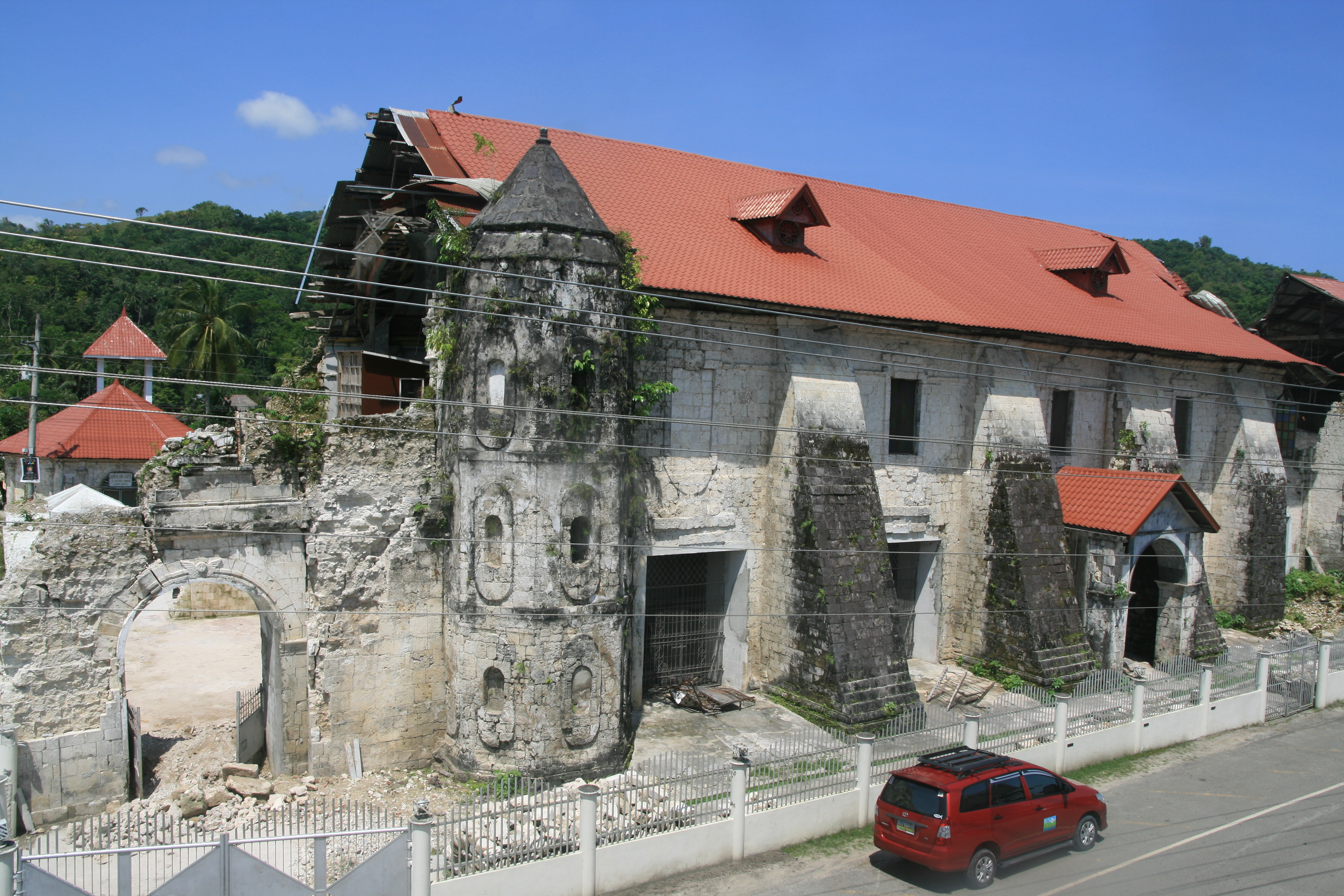 Remains of Loboc church post-2013 earthquake